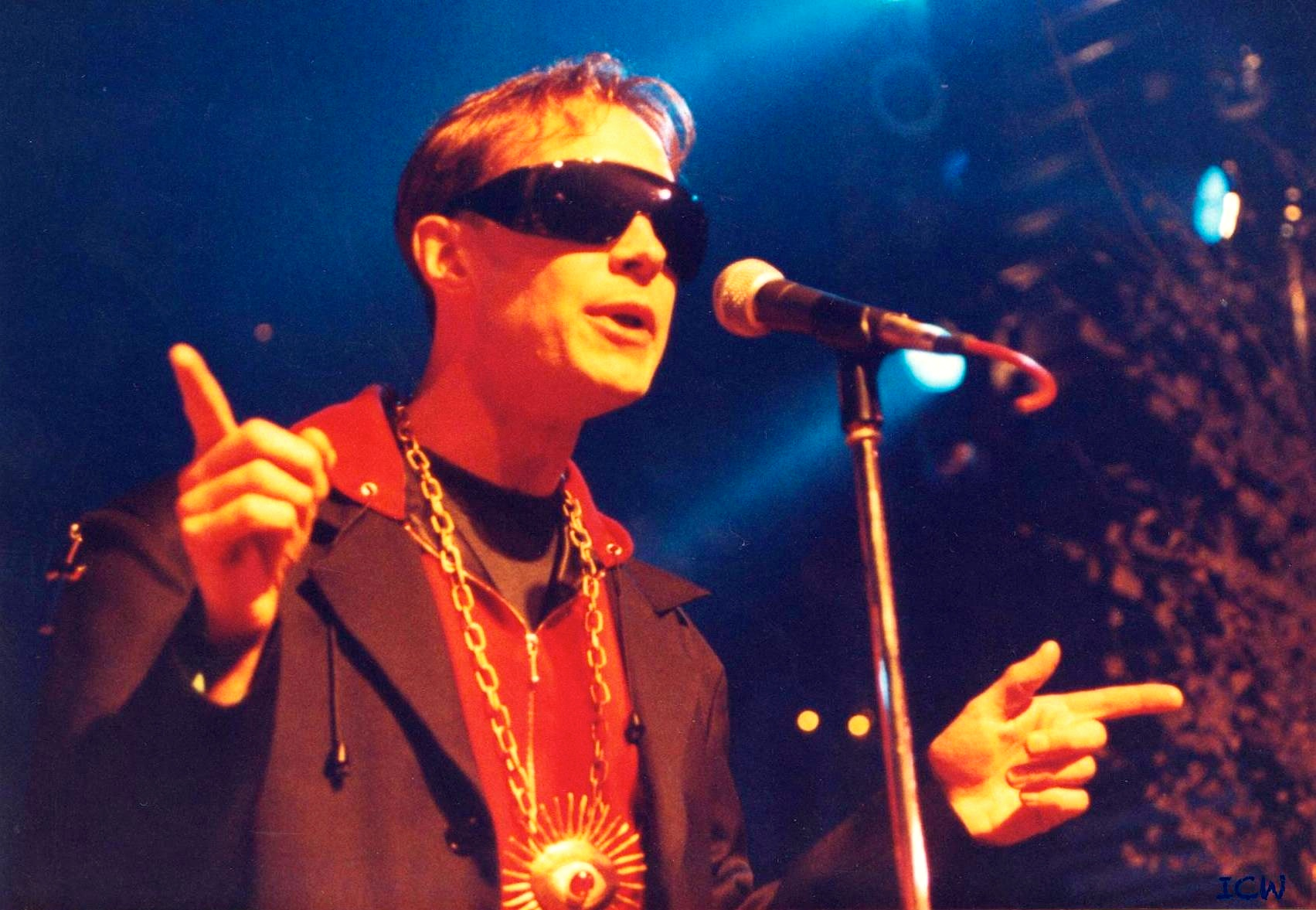 Iain Williams of Big Bang (British Band) on stage during the bands lavish Arabic Circus Tour